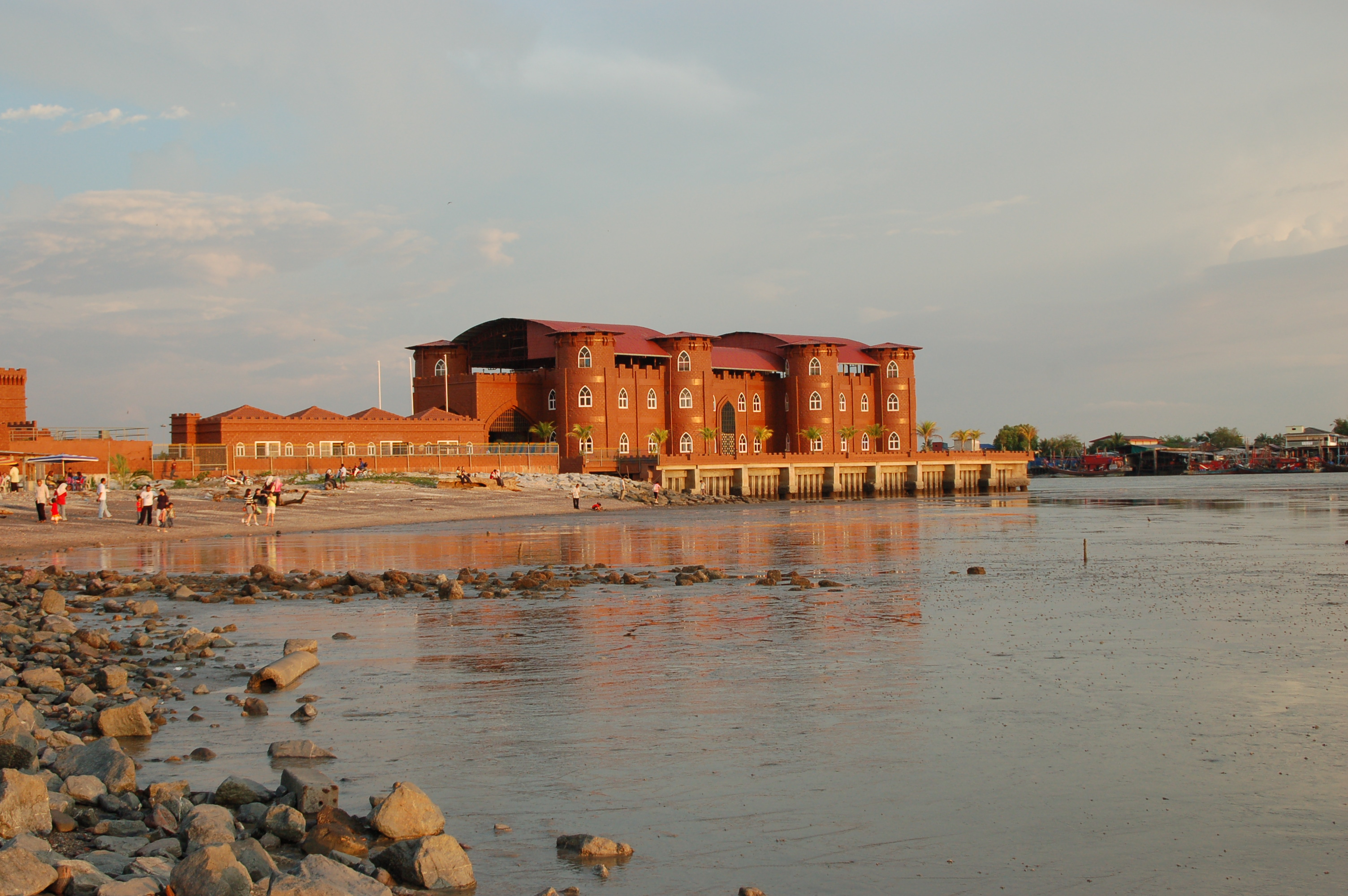 The fort of Kota Kuala Kedah, in Kuala Kedah, Malaysia